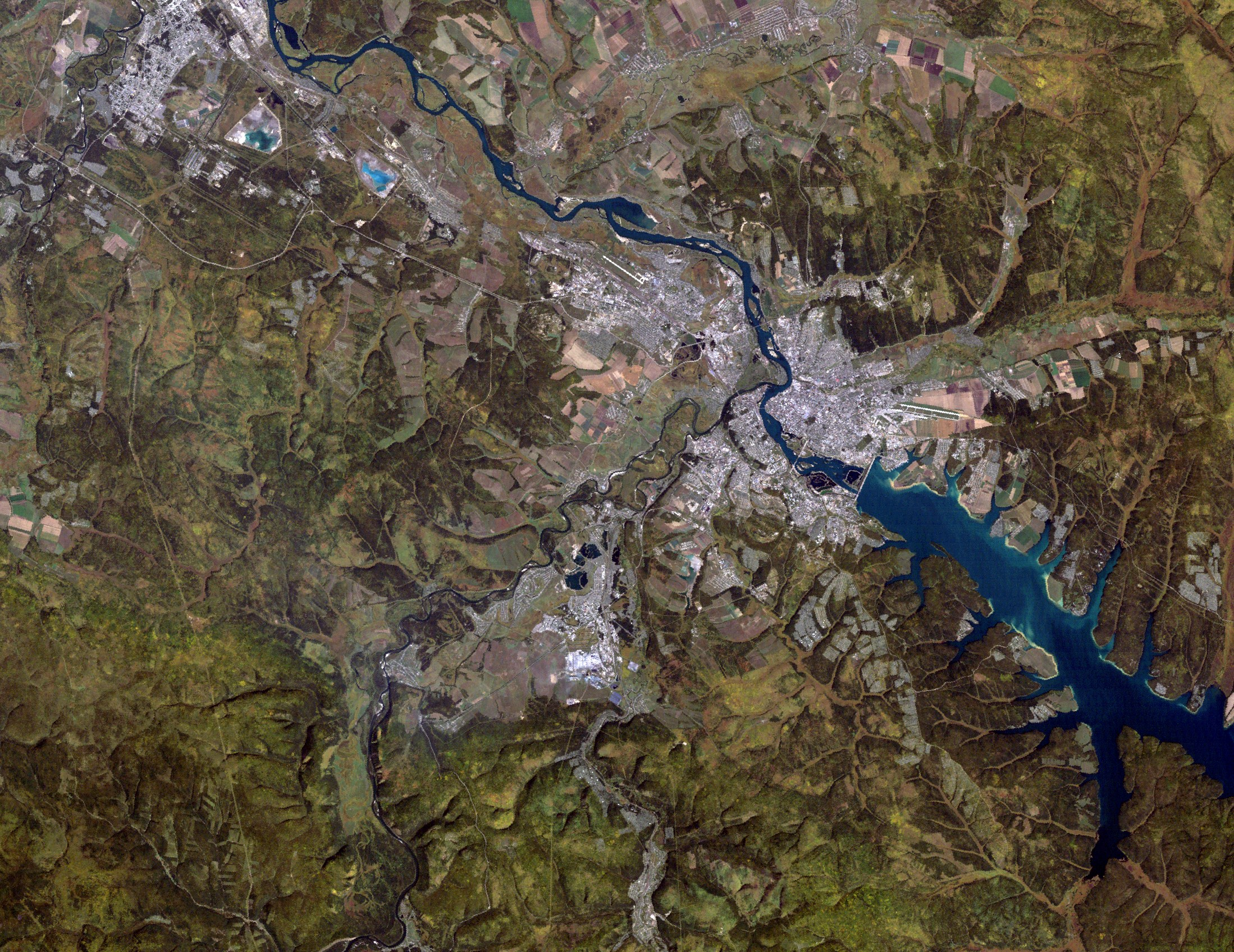 Irkutsk urban agglomeration, Russia, Landsat-7 image, near natural colors, 30 m resolution